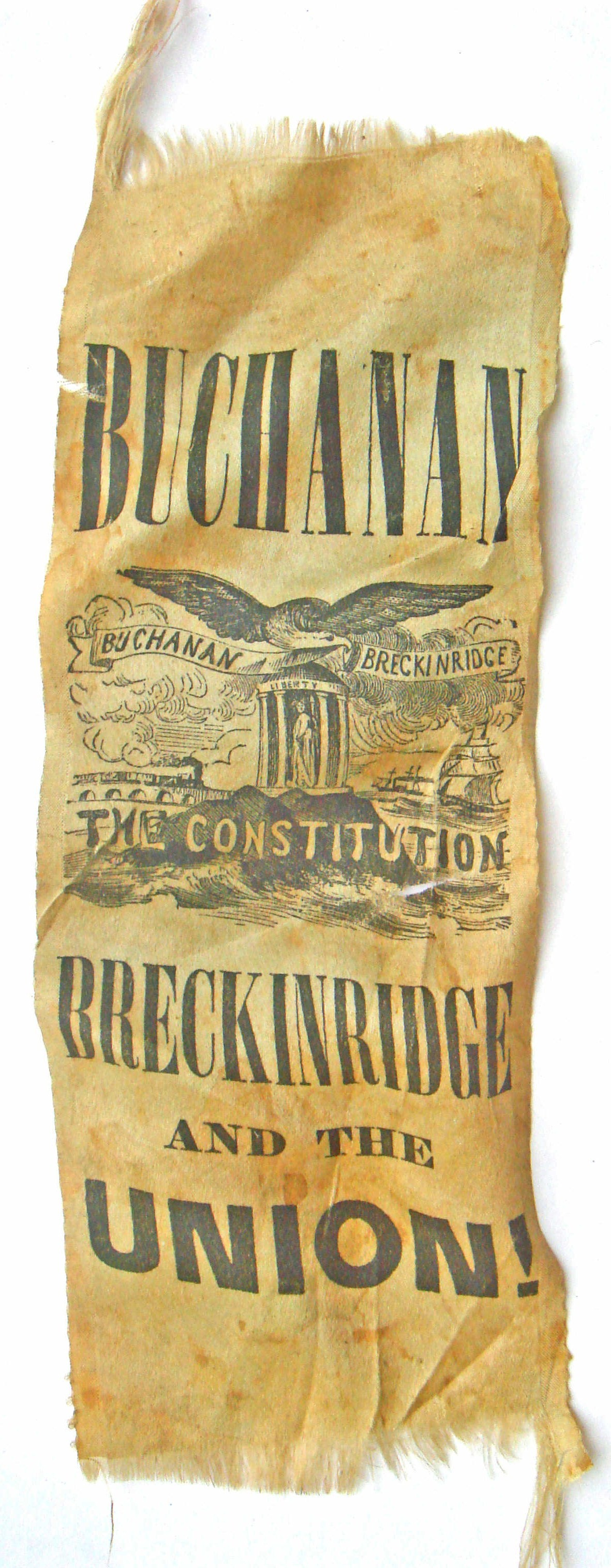 Political ribbon for the Buchanan/Breckenridge ticket in the United States presidential election. Store Web page states: "The top and the bottom have lost much of their fringe. The ribbon is a little over six inches long ignoring the fringes and hanging threads."